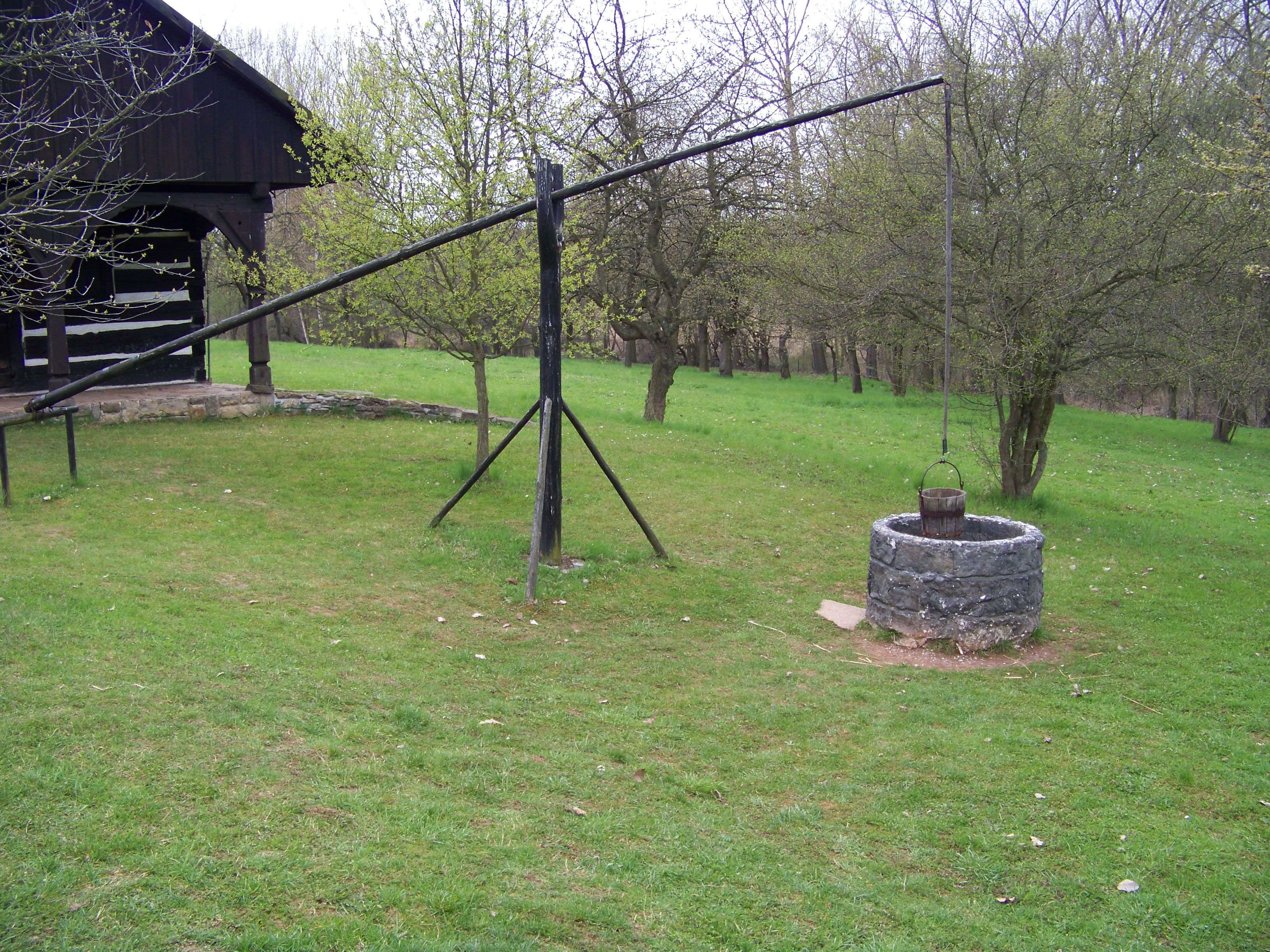 Kouřim, Kolín District, Central Bohemian Region, the Czech Republic. Open air museum.